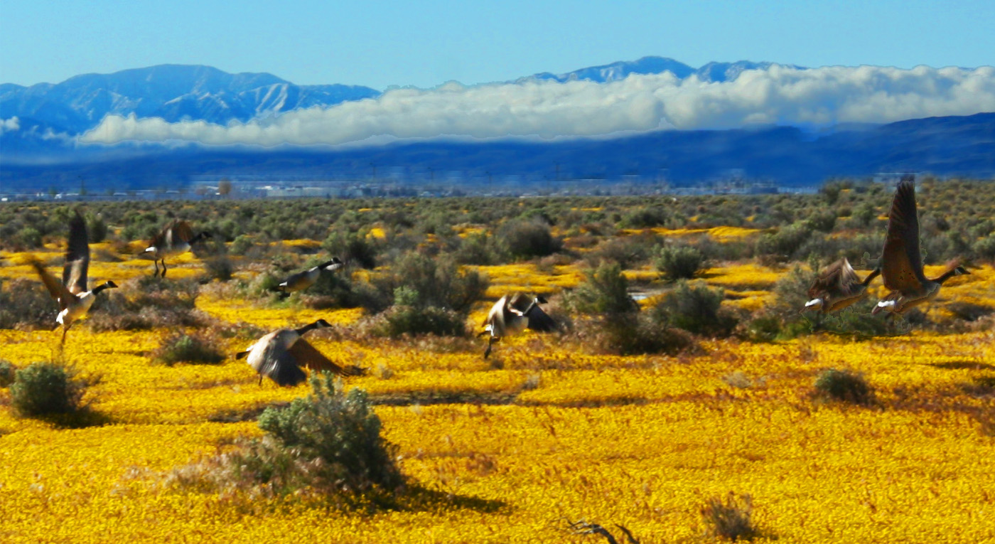 Canadian Geese Take Flight over Antelope Valley poppies